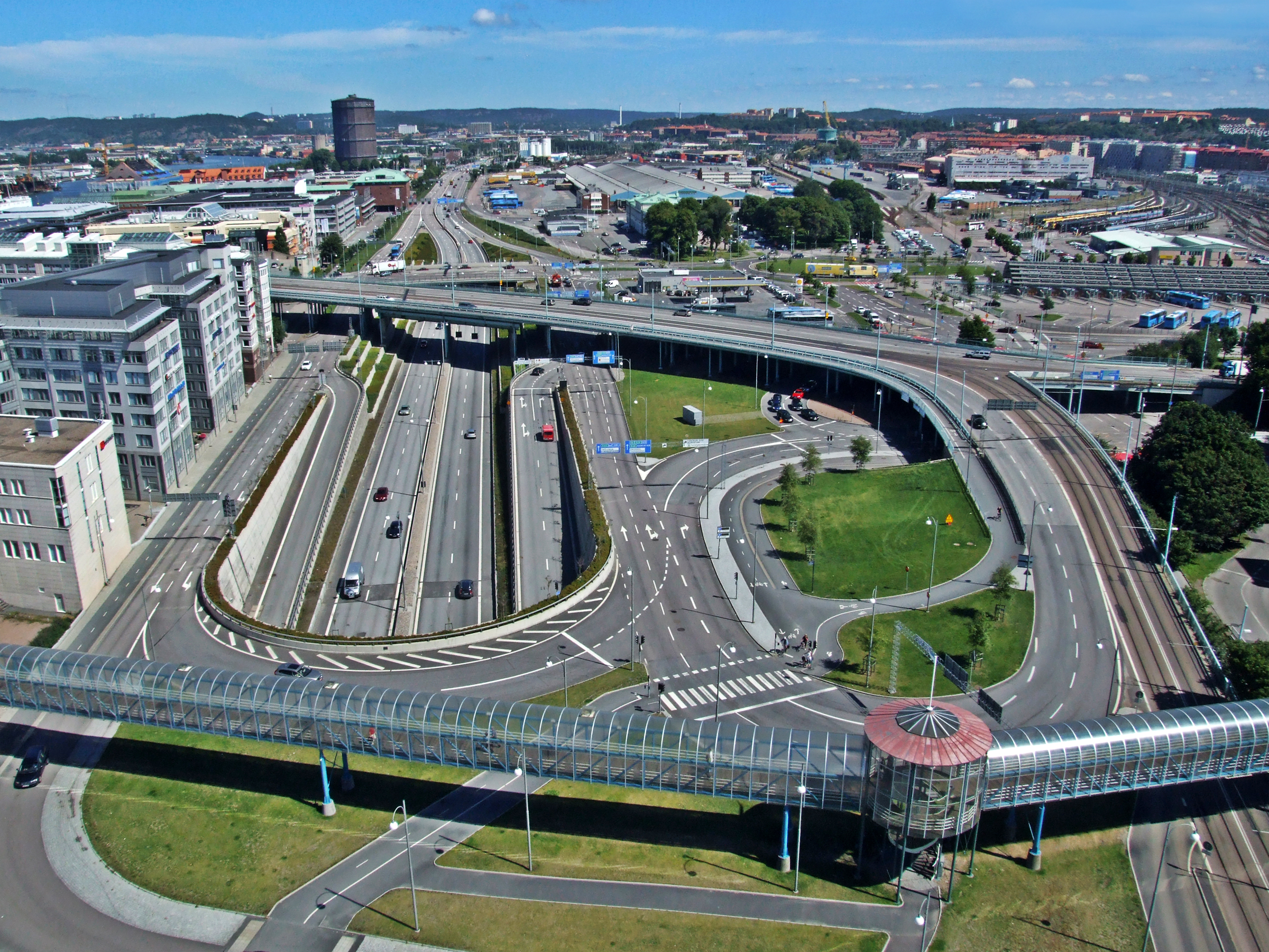 Newly built road junction in downtown Gothenburg. Picture taken from Gothenburg wheel